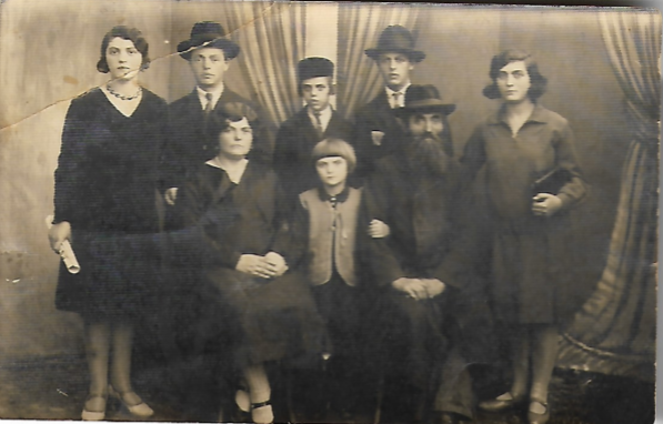 The Klinshpiz Family, a Jewish family from Uhnow (Hivniv), Ukraine. Aside from one son who immigrated to palestine before the Holocaust, the whole family perished.